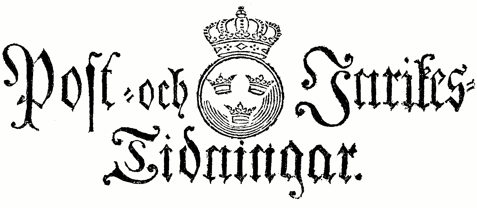 Logotype of Post- och Inrikes Tidningar, as it appeared in 1821